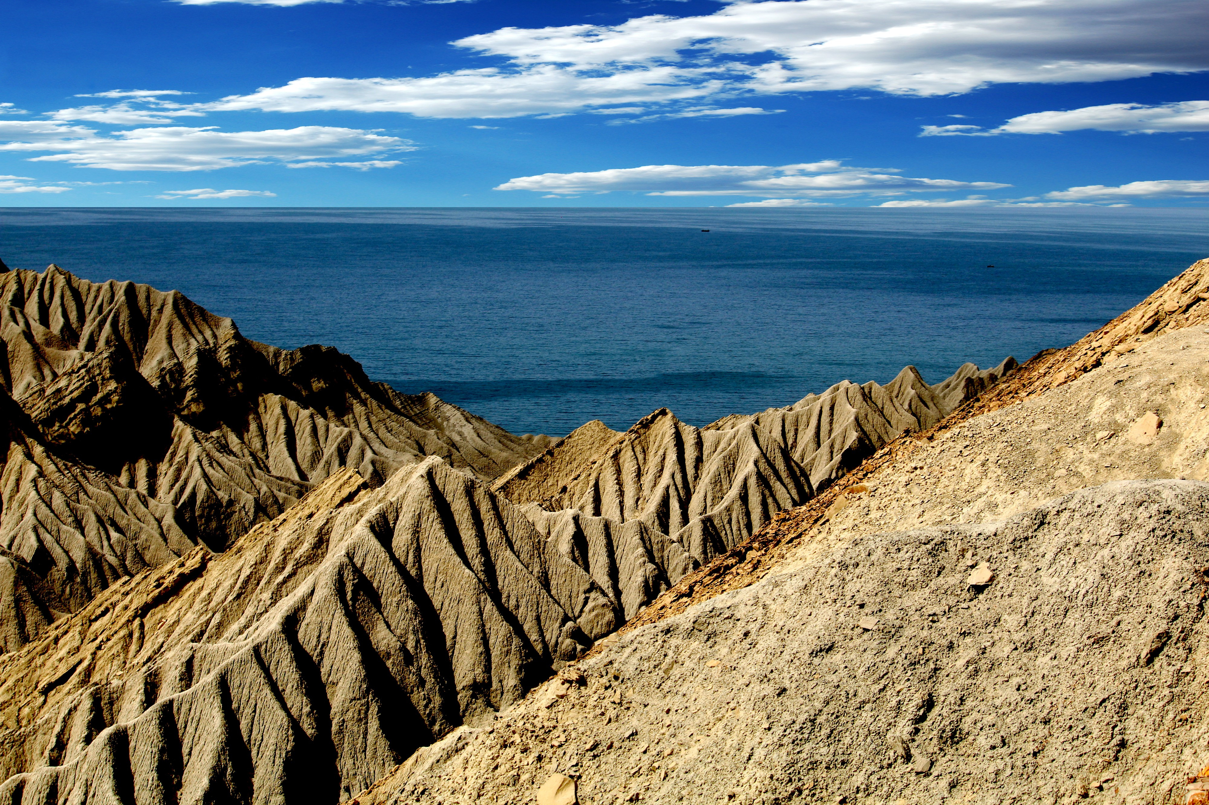 Ormara, is a town in Gwadar District in Balochistan province of Pakistan. It is a port city located in the Makran coastal region. It is located 360 kilometres west of Karachi and 230 kilometres east of Gwadar on the Arabian Sea.